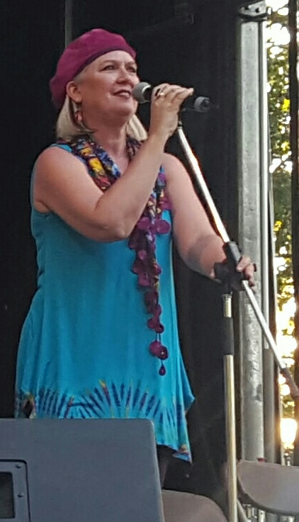 Carmen Campagne photographed in Repentigny , Québec, Canada .